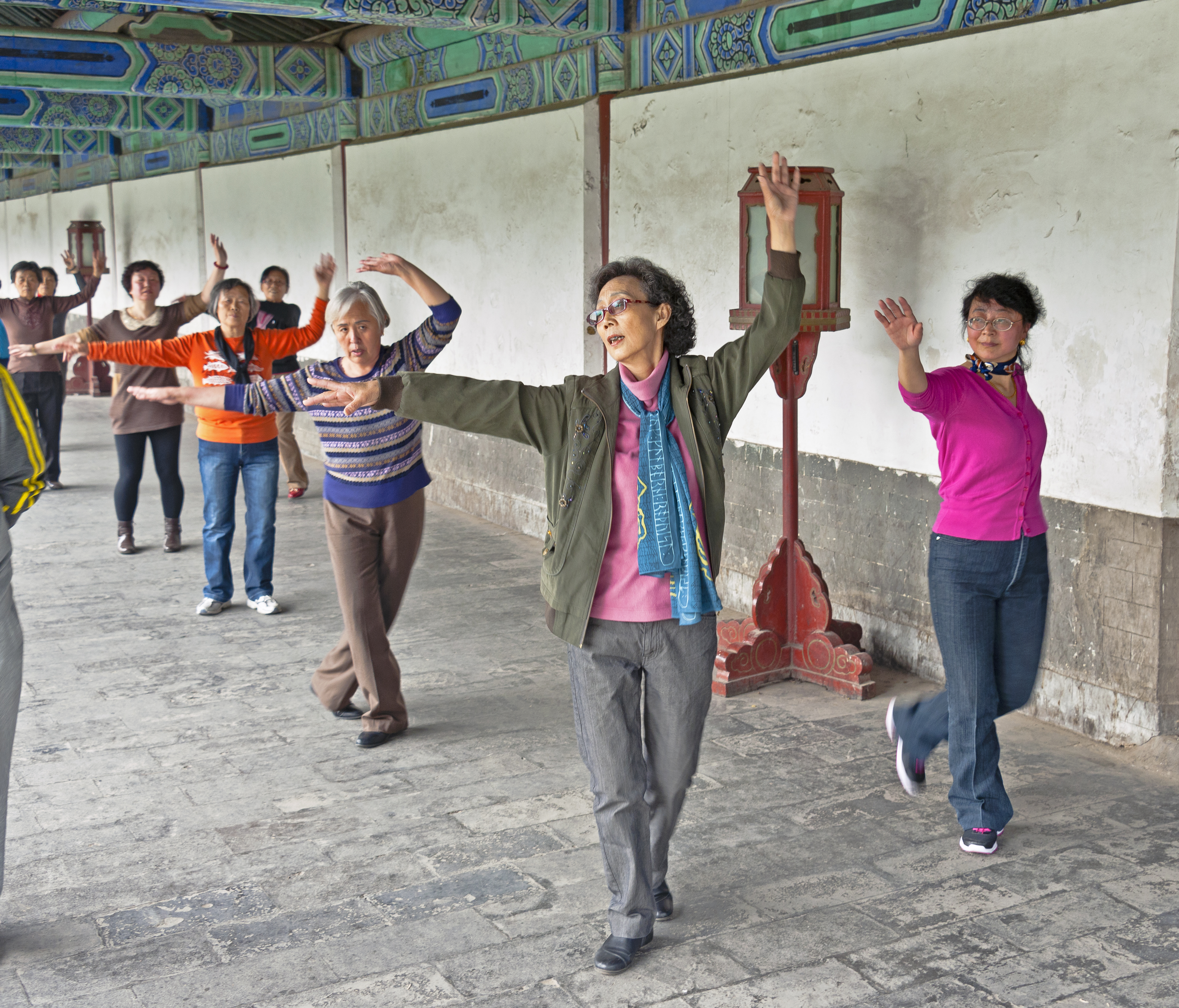 Women practicing a dance to a pop song in Temple of Heaven Park, Beijing